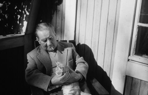 Photograph of the Finnish author Elmer Diktonius at his home in Kauniainen (Grankulla).